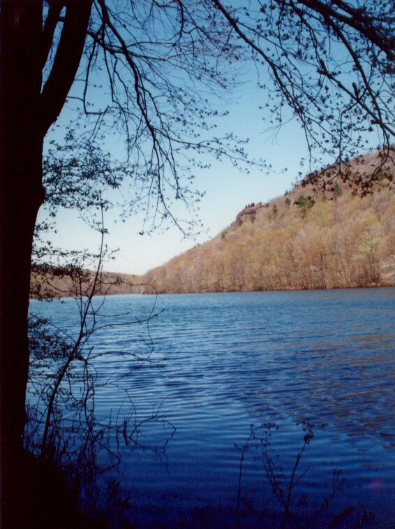 Farmington Reservoir, Farmington Connecticut. Paul Gagnon, 2000.